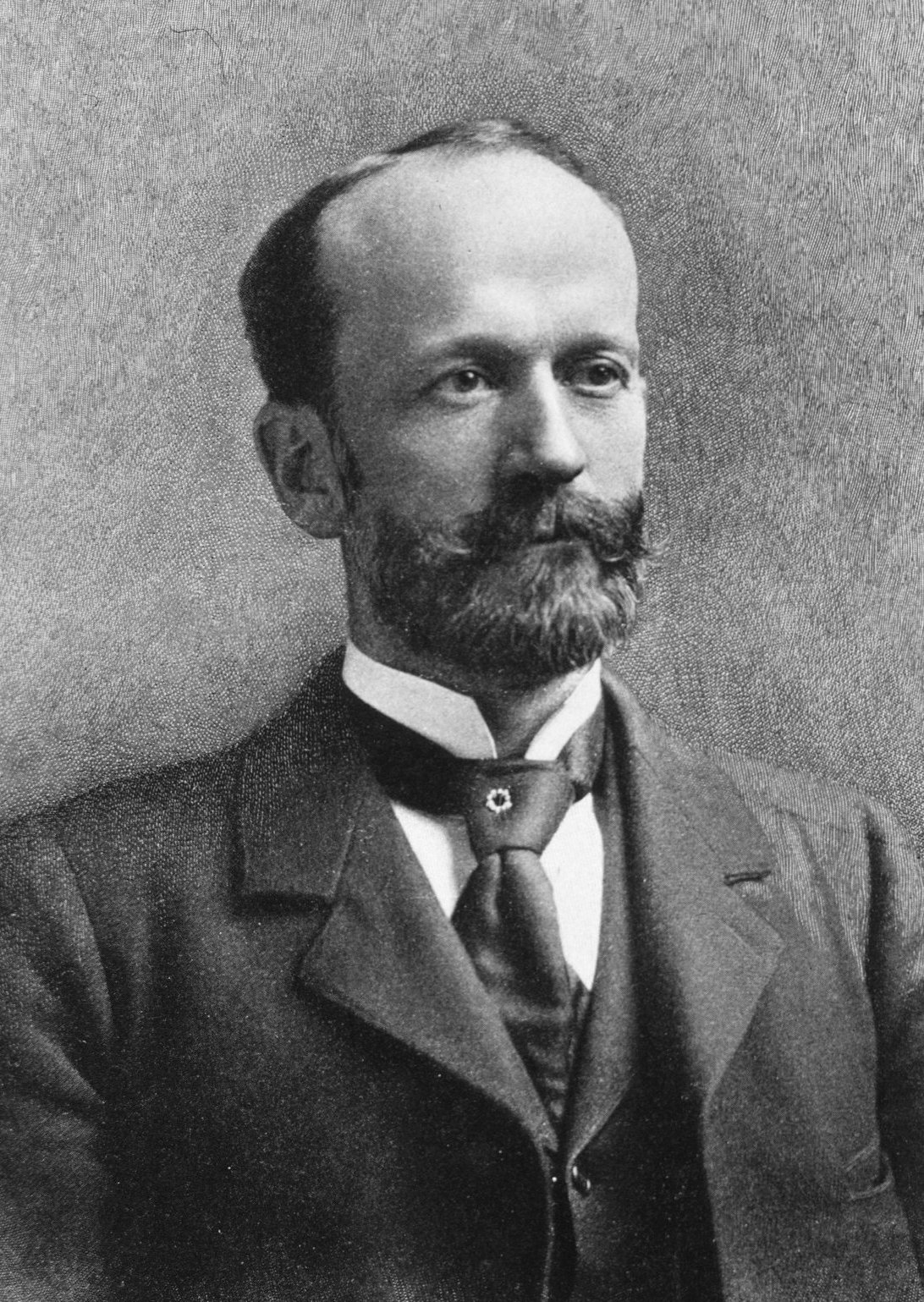 Charles Doolittle Walcott (March 31, 1850 – February 9, 1927)